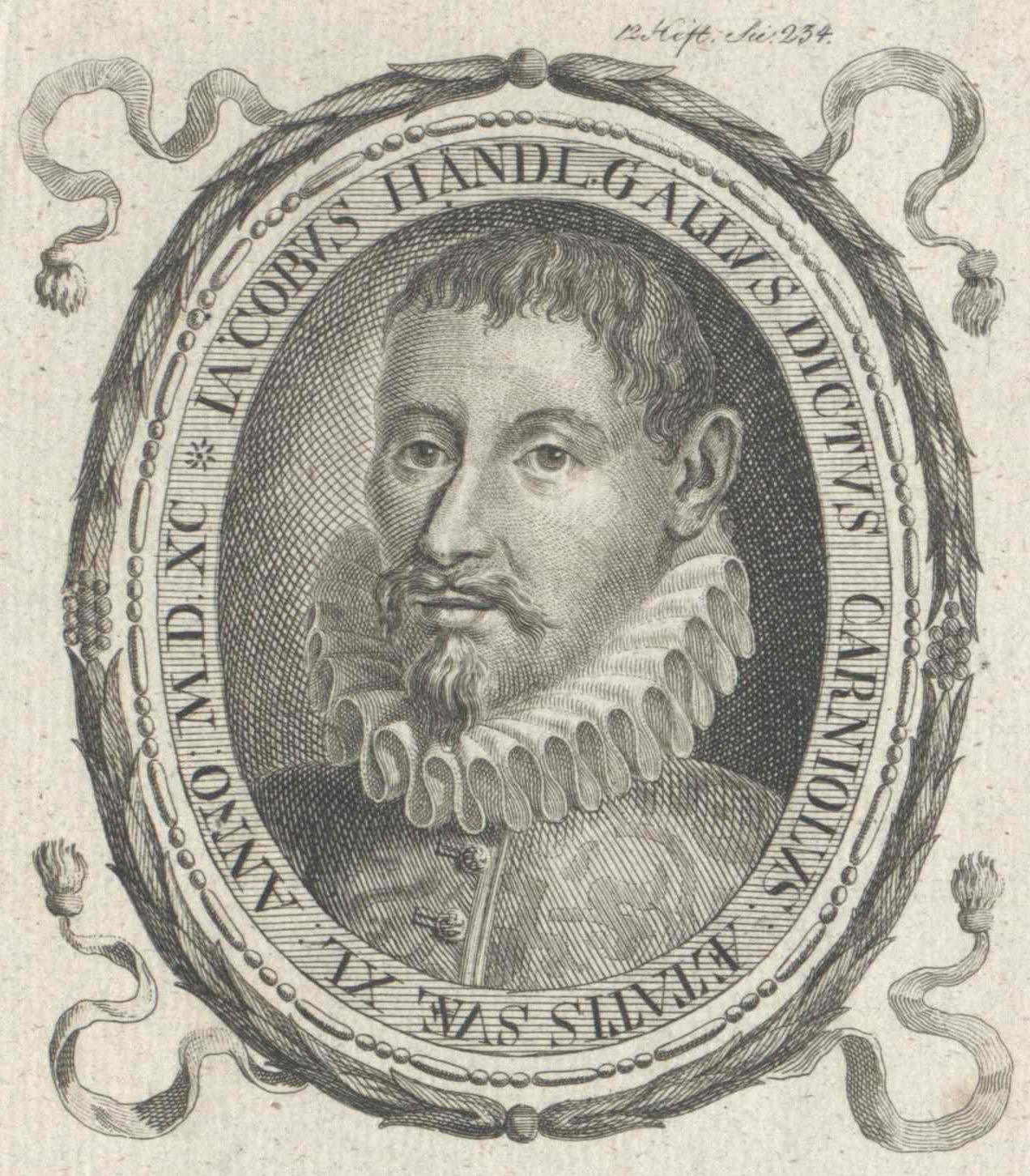 Later portrait of the composer Jakob Petelin Gallus, after the woodcut from the tenor-voice of Opus musicum, book IV (1590).